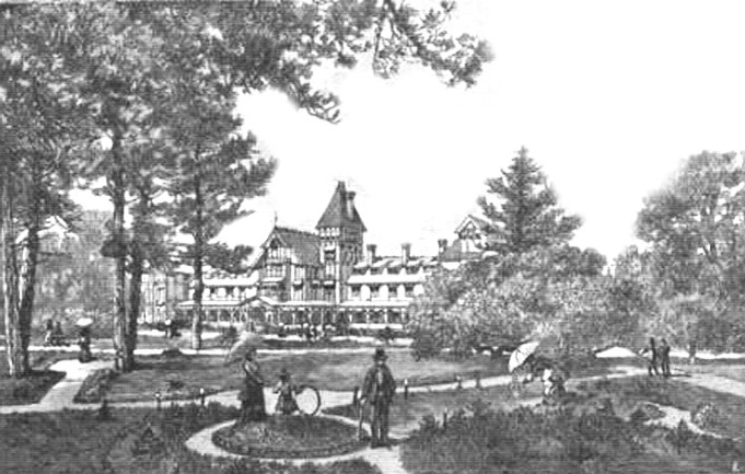 Page from book: Mexico, California and Arizona; being a new and revised edition of Old Mexico and her lost provinces. (1900)